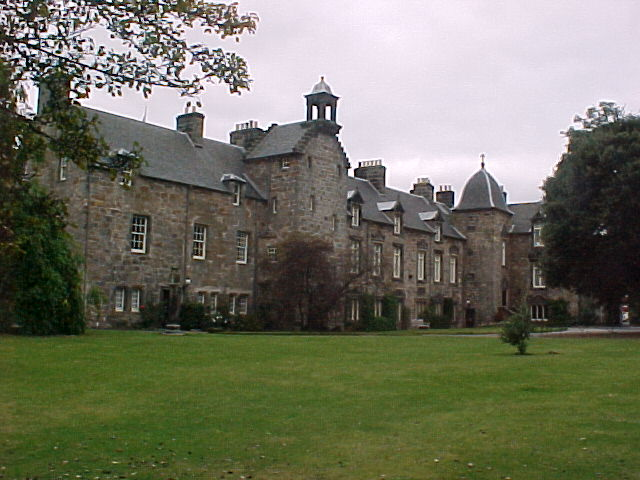 a photo taken 2005 by uploader